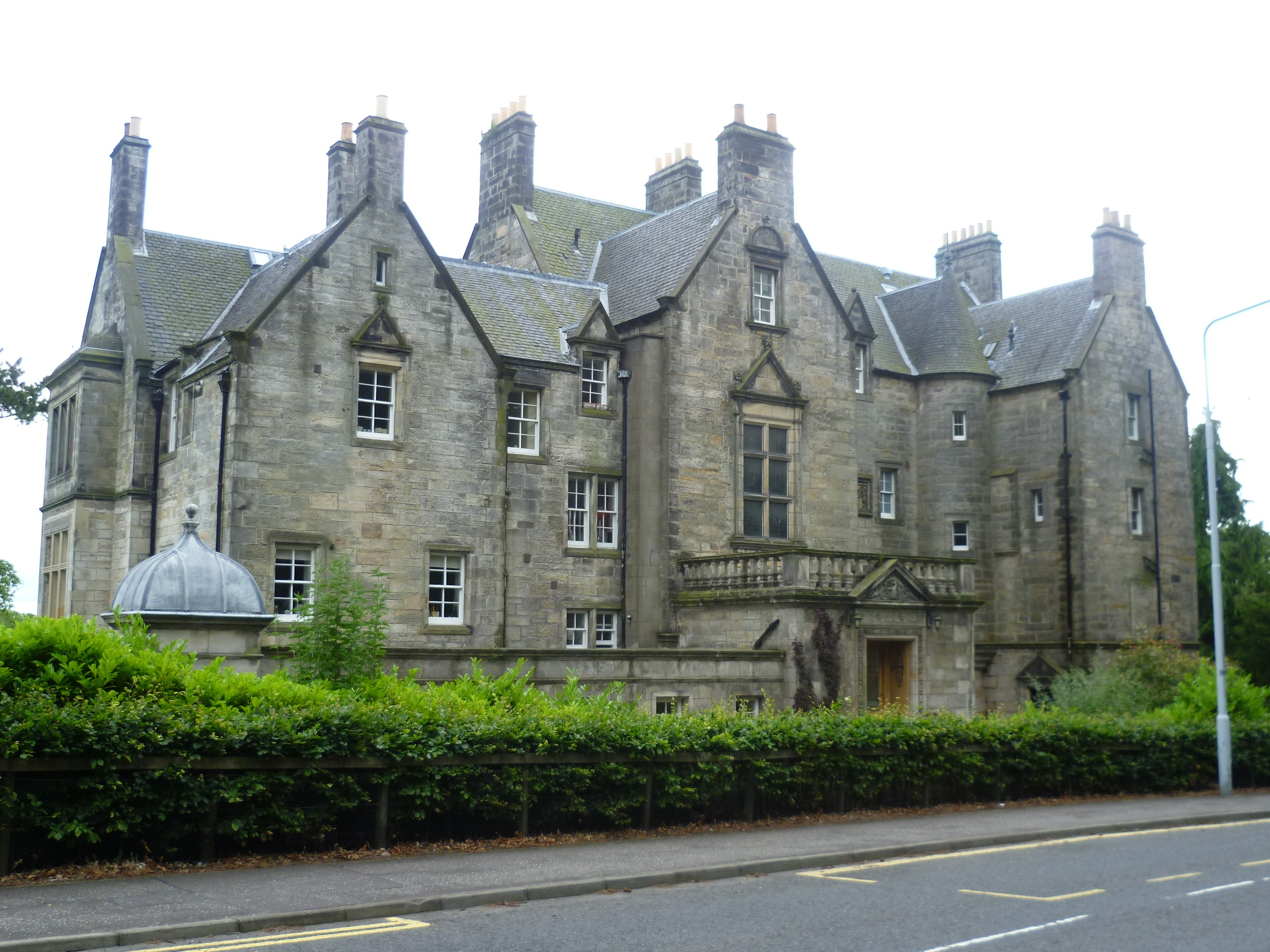 Pitreavie photgraphed in 2011